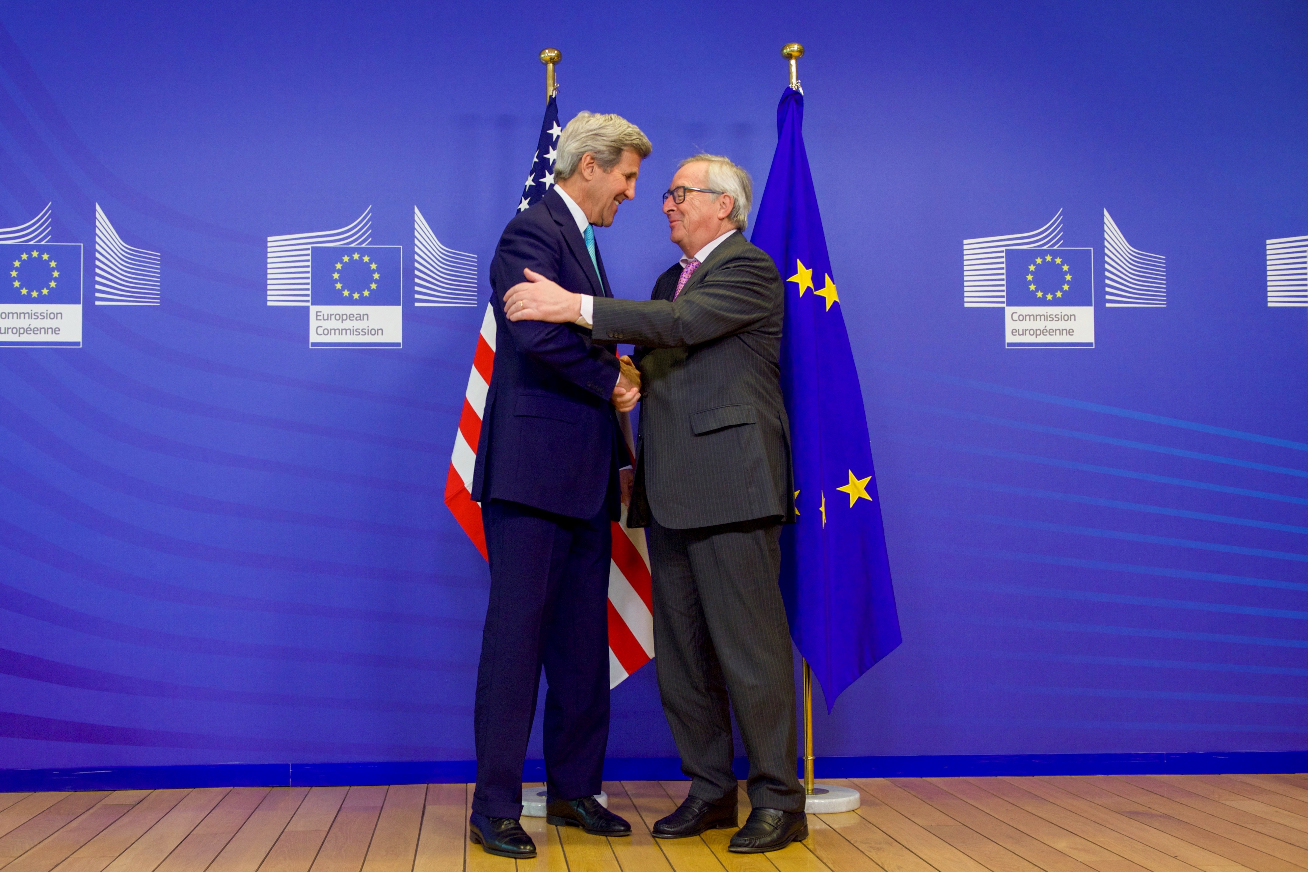 European Commission President Jean-Claude Juncker embraces U.S. Secretary of State John Kerry as they pose for photographers at Berlaymont -- the E.C. headquarters -- in Brussels, Belgium, on March 25, 2016, after the Secretary paid condolences on behalf of the American people following the twin terrorists attacks earlier in the week on the city and country. [State Department photo/ Public Domain]